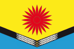 Flag of Mikhaylovskoe rural settlement, Krasnodar Territory, Russia